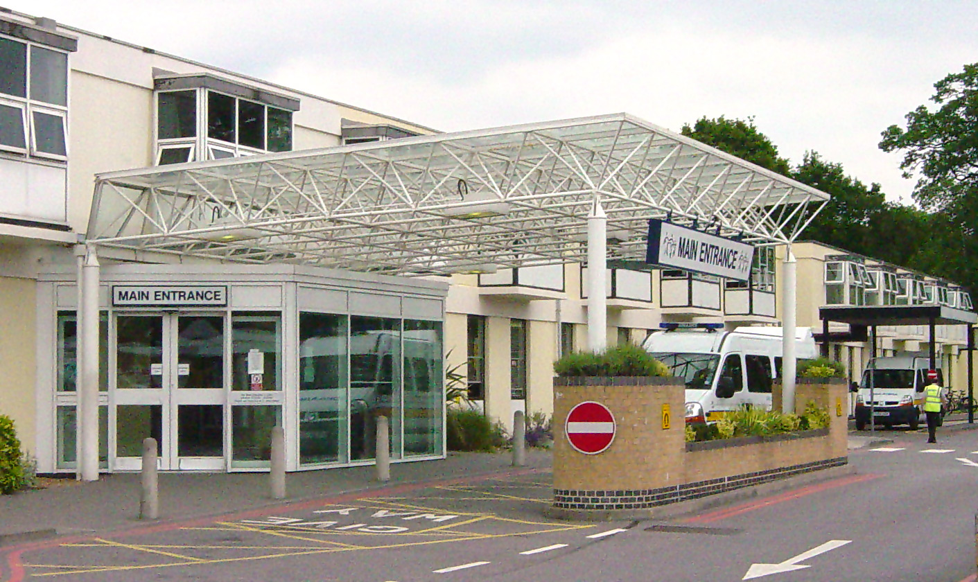 I took this photograph today of the main entrance to Frimley Park Hospital, Frimley, Camberley, Surrey, England